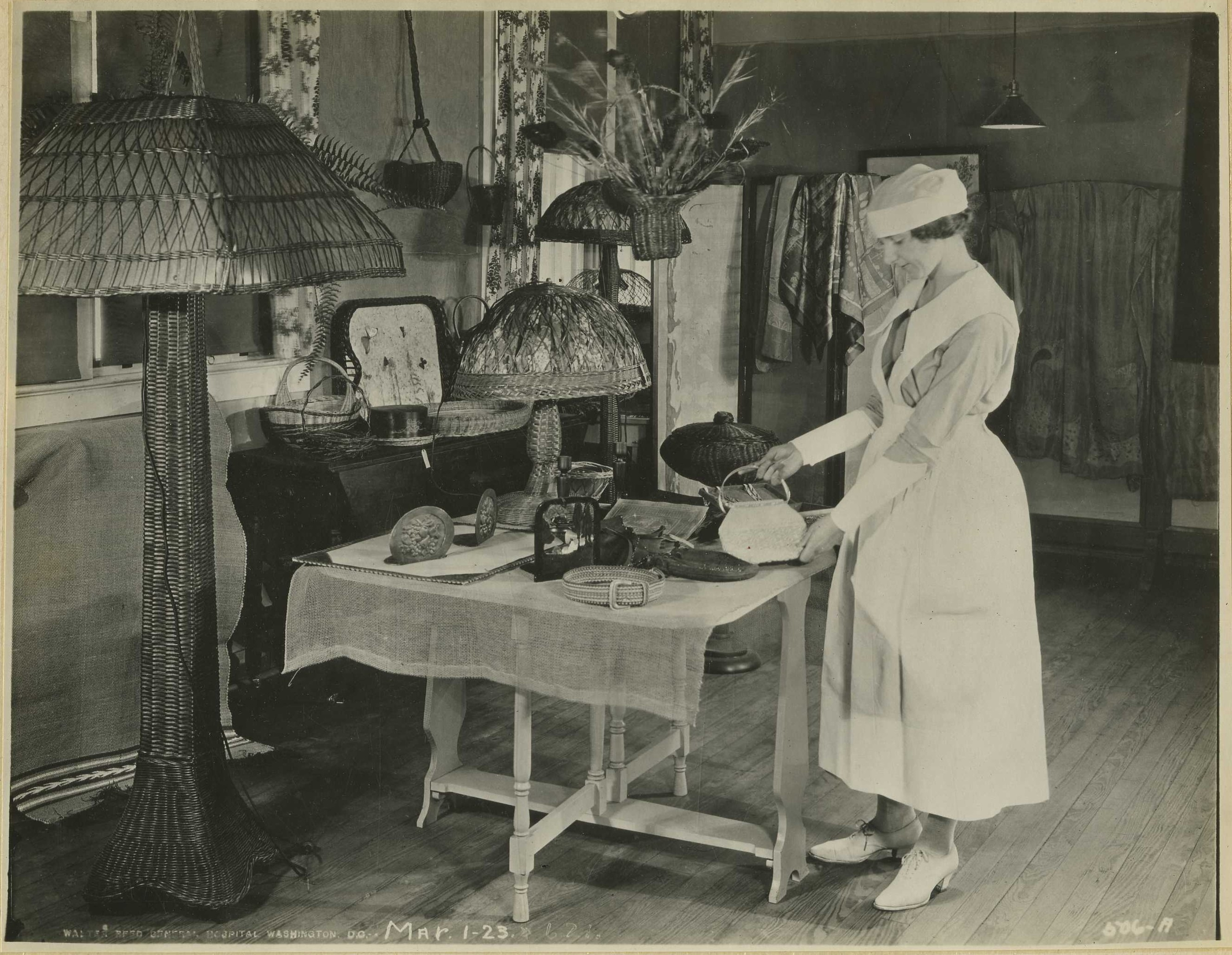 Occupational therapy. Display of lamps and other articles made. "Walter Reed General Hospital, Washington DC. 03/01/1923" [Nurses.] Selected by Mike.